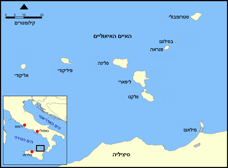 Aeolian Islands